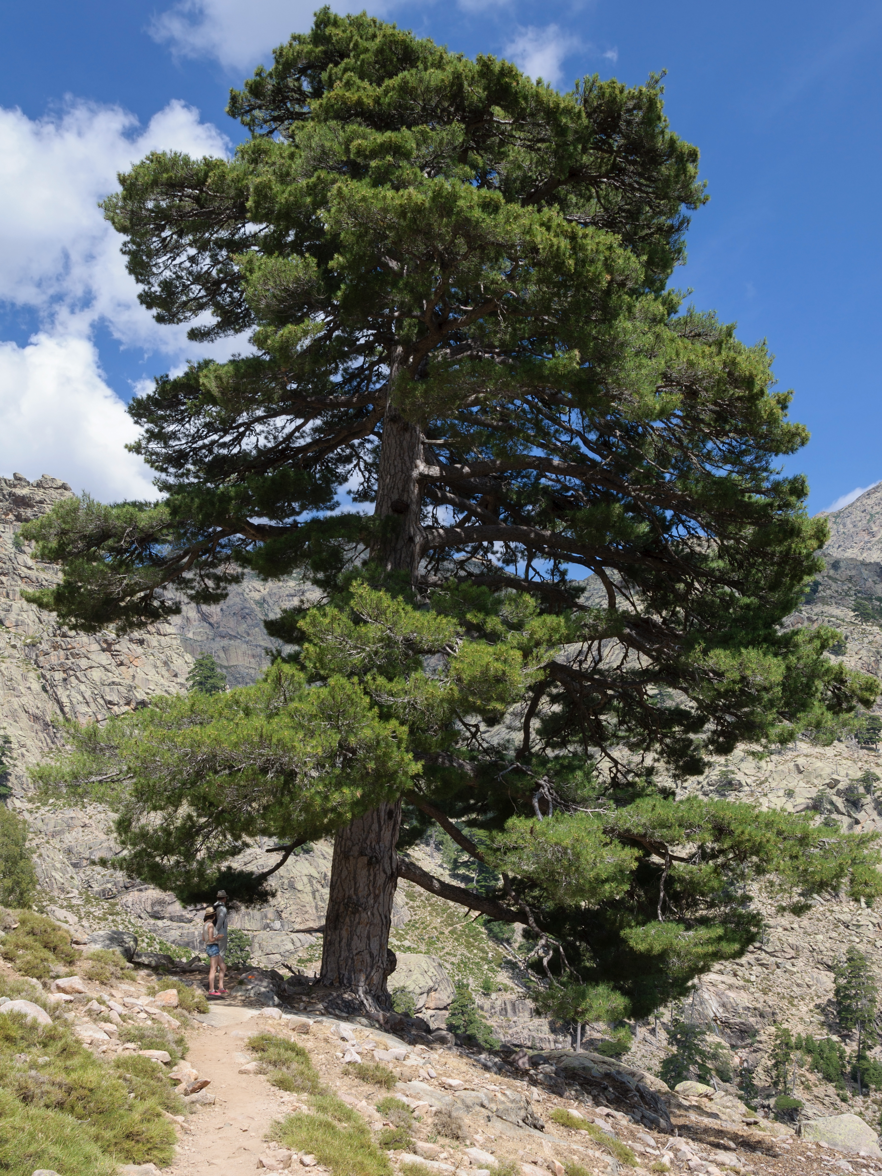 Corsican Pine (Pinus nigra subsp. salzmannii var. corsicana[2]»), towards the Valdu Niellu forest in Southern Corsica.